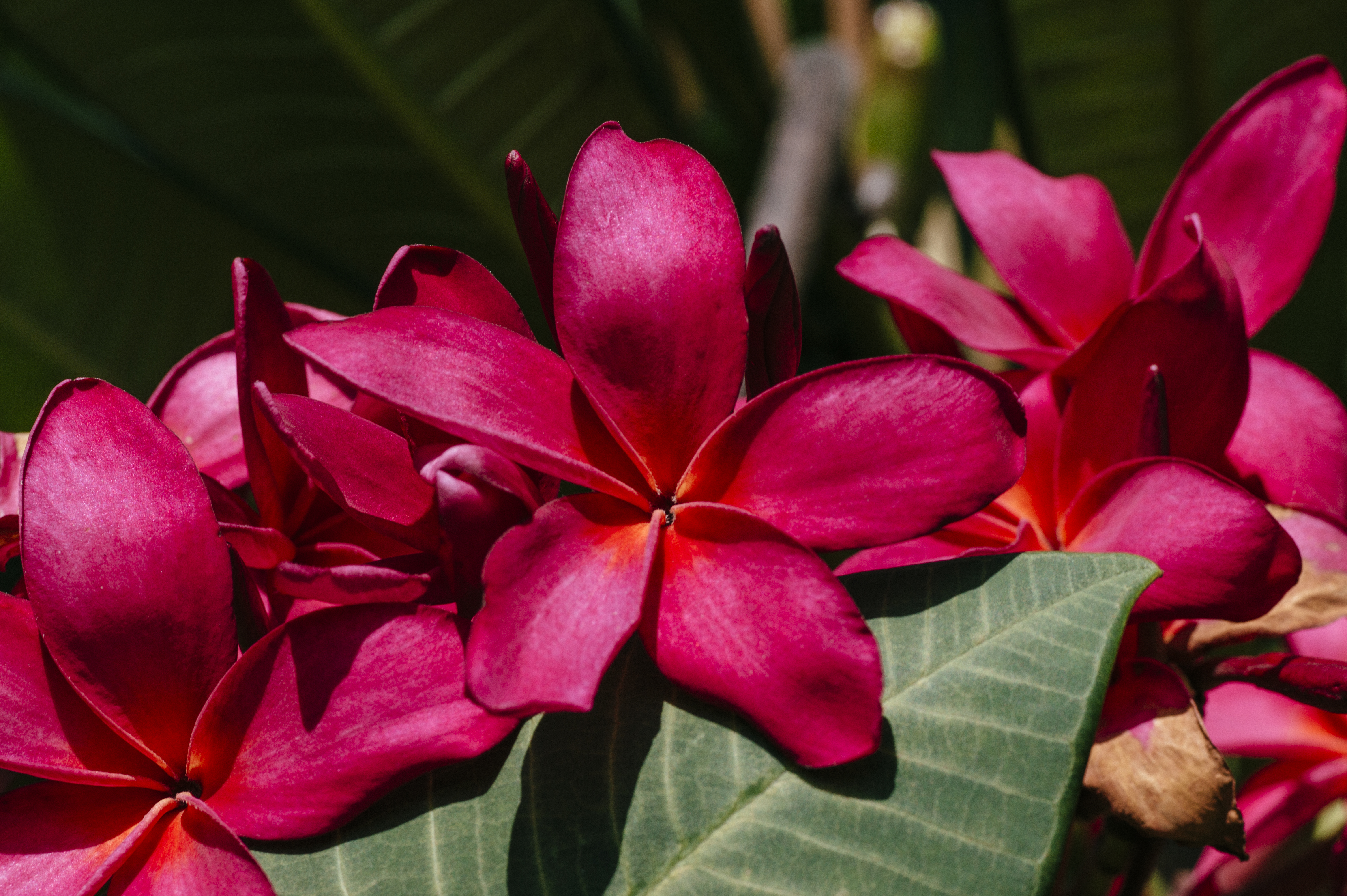 Plumeria (/pluːˈmɛriə/) is a genus of flowering plants in the dogbane family, Apocynaceae.Most species are deciduous shrubs or small trees. The species variously are indigenous to Mexico, Central America, Hawaii and the Caribbean, and as far south as Brazil, but are grown as cosmopolitan ornamentals in warm regions. Common names for plants in the genus vary widely according to region, variety, and whim, but Frangipani or variations on that theme are the most common. Plumeria also is used directly as a common name, especially in horticultural circles.